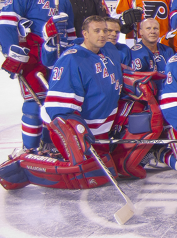 Dan Blackburn planing for the New York Rangers alumni after their Alumni Game at Citizens Bank Park in Philadelphia, PA, played on December 31, 2011. He is wearing pair of blockers rather than the conventional blocker/catcher combination, as he did in his comback attempt, becouse an injury rendered him incapable of rotating his glove hand.(Photograph by Bruce C. Cooper (Centpacrr))